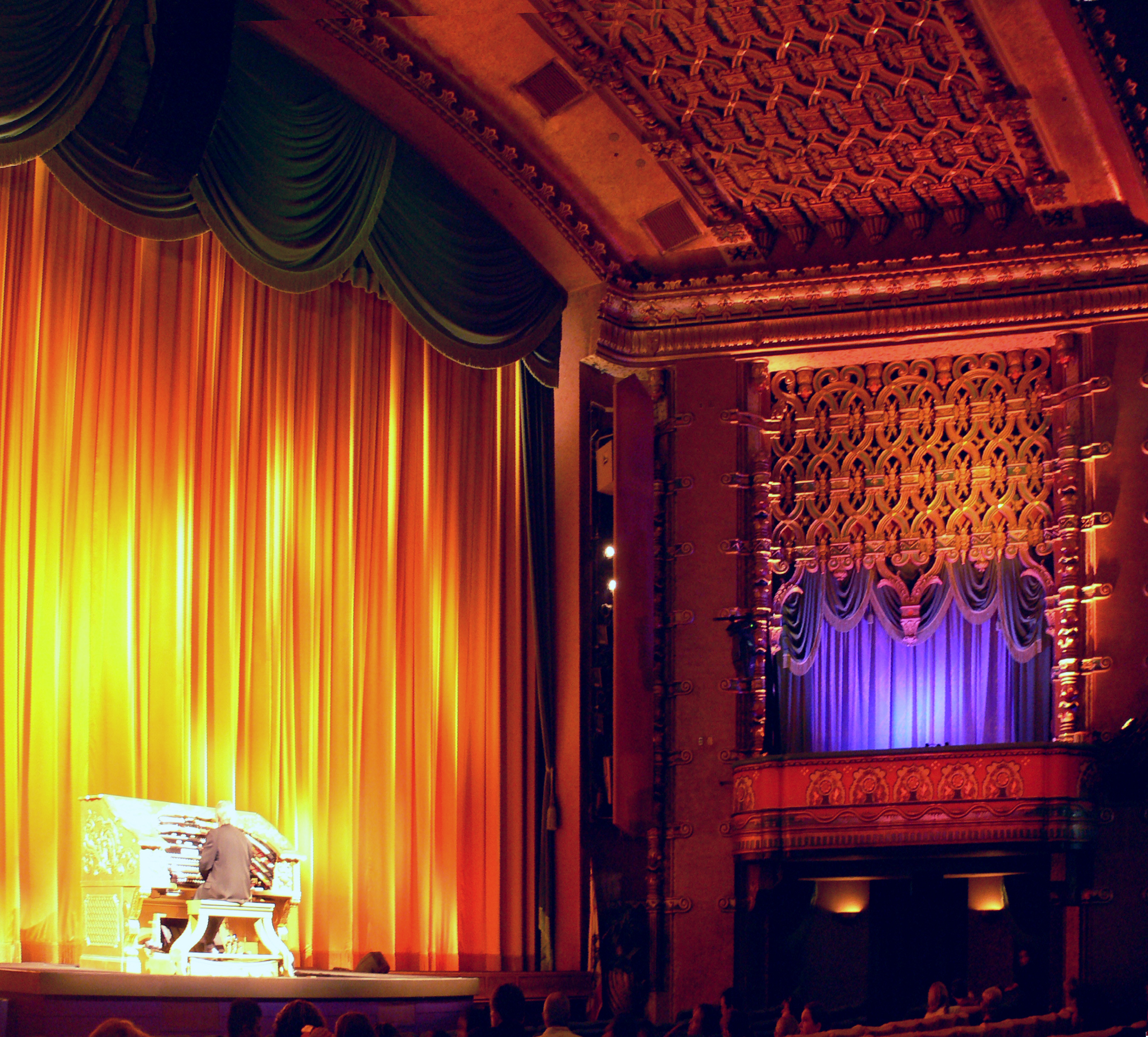 El Capitan Theater, 6838 Hollywood Boulevard, Los Angeles, California View of the proscenium arch and the stage during the pre-movie organ concert.